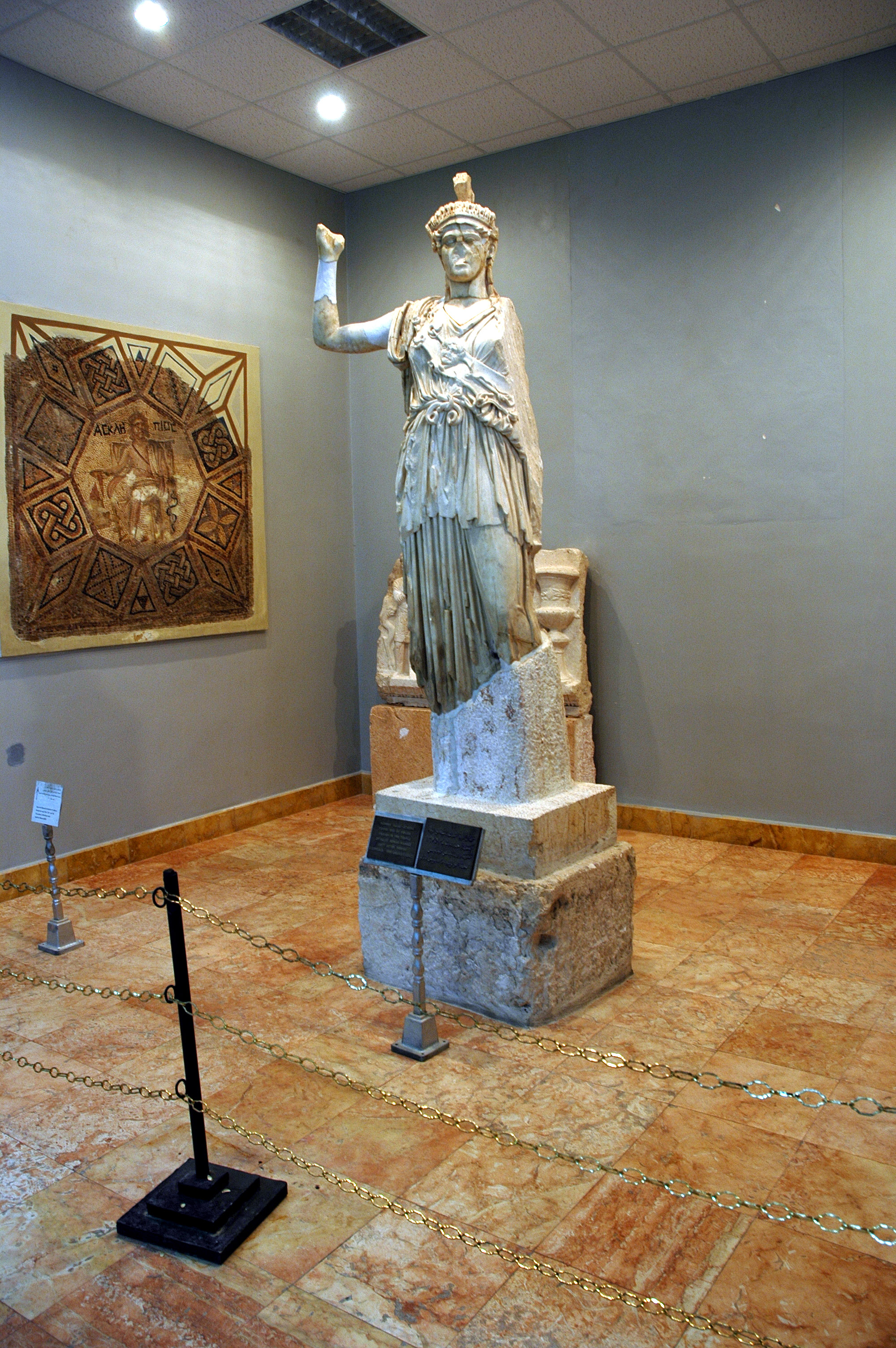 Archeological Museum, statue of Athena, Palmyra in 2004